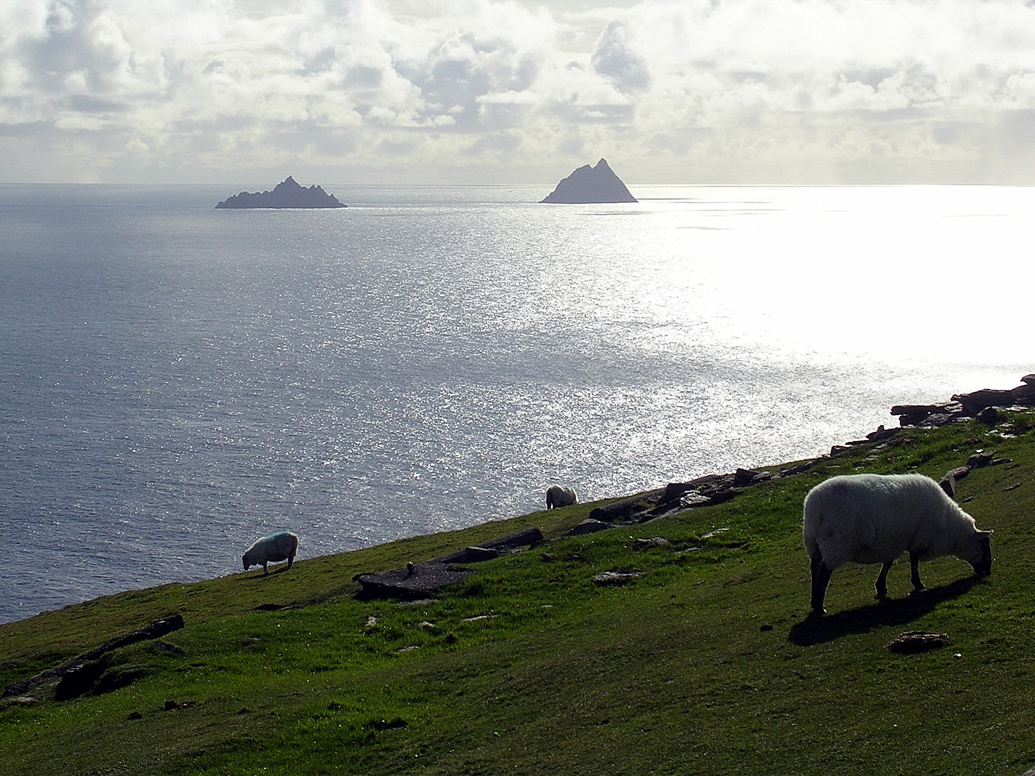 The Skelligs as seen from Valentia Island